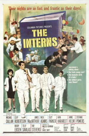 Theatrical poster for the film The Interns (1962)